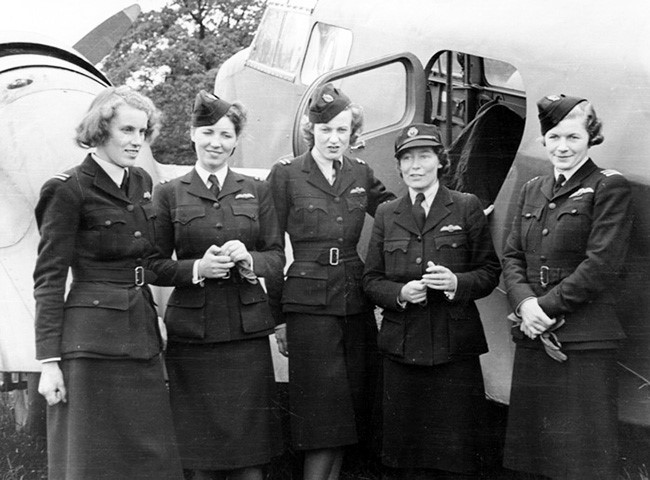 Five ATA flyers left to right Lettice Curtis Jenny Broad Audrey Sale Barker Gabrielle Patterson and Pauline Gower. guess 1943